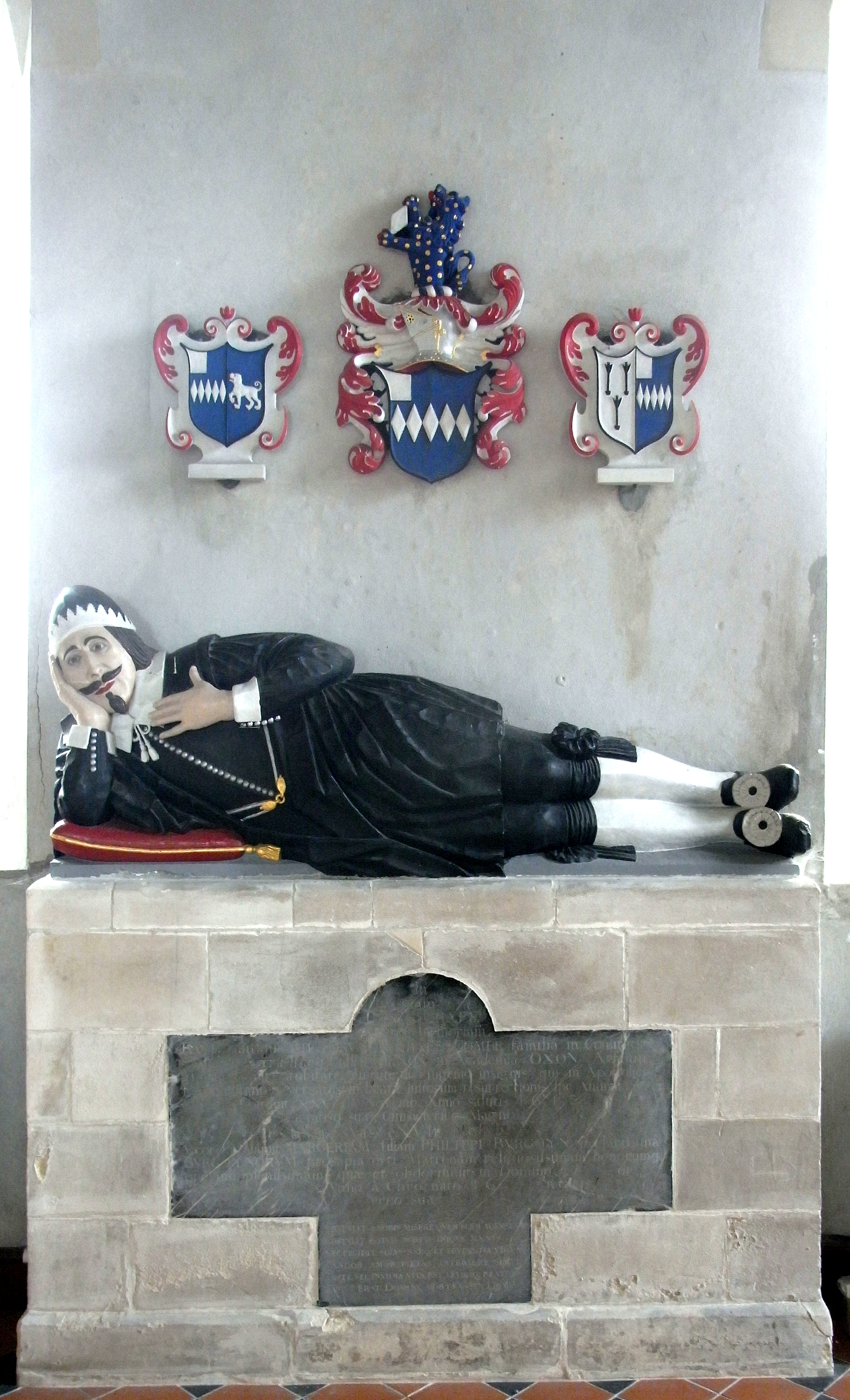 Monument to Thomas Chafe (1585-1648), St Giles' Church, St Giles in the Wood, Devon, south wall of nave